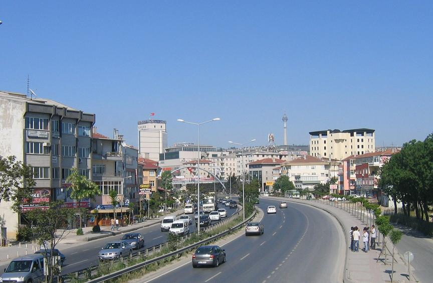 I took the photo, you are free to do whatever you like